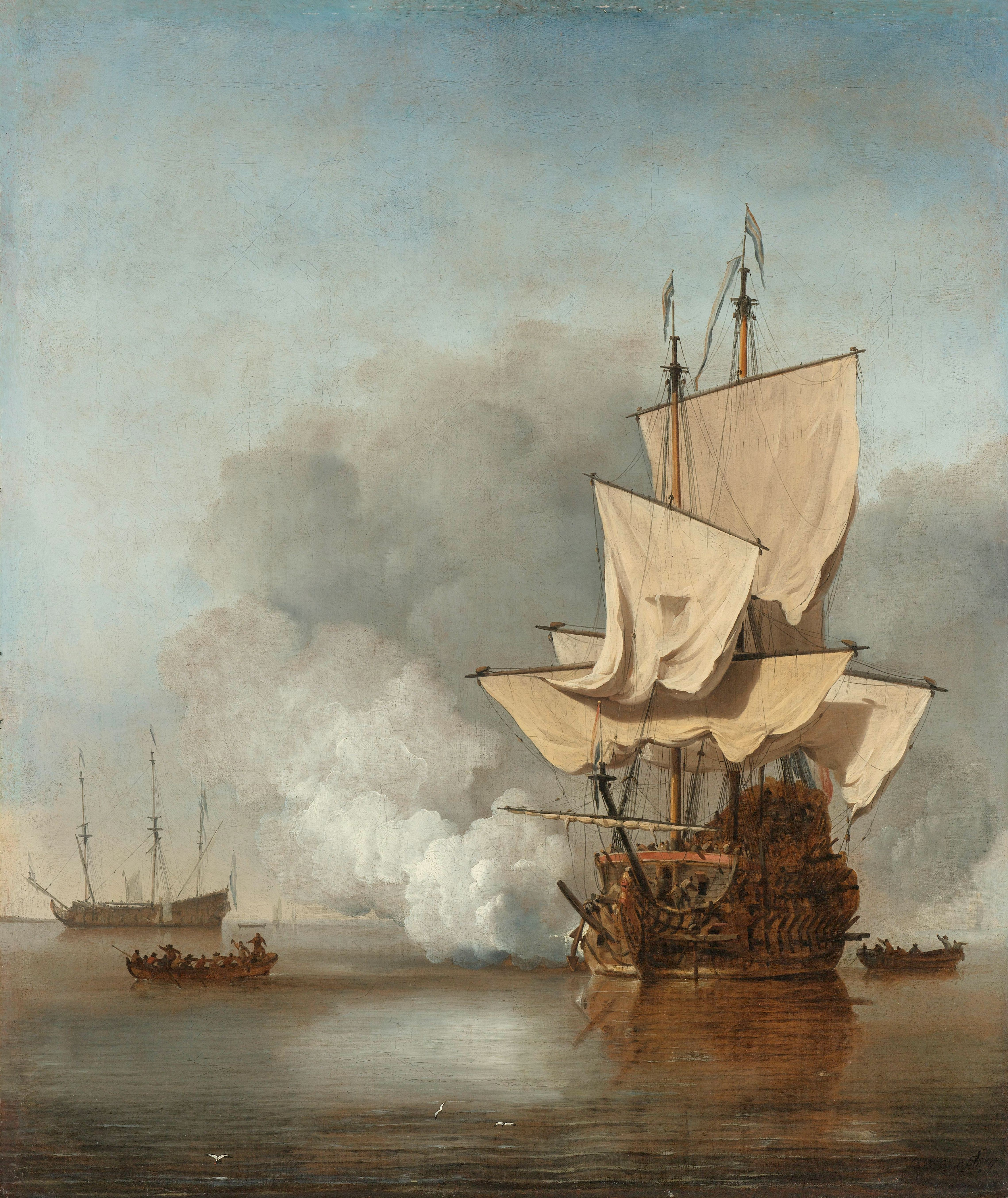 The canon shot. A man-of-war in a calm with slack sails fires a canon shot. Sloops on either side. In the distance a second man-of-war with lowered sails. Pendant of File:Een schip in volle zee bij vliegende storm, bekend als ‘De windstoot’ Rijksmuseum SK-A-1848.jpeg.